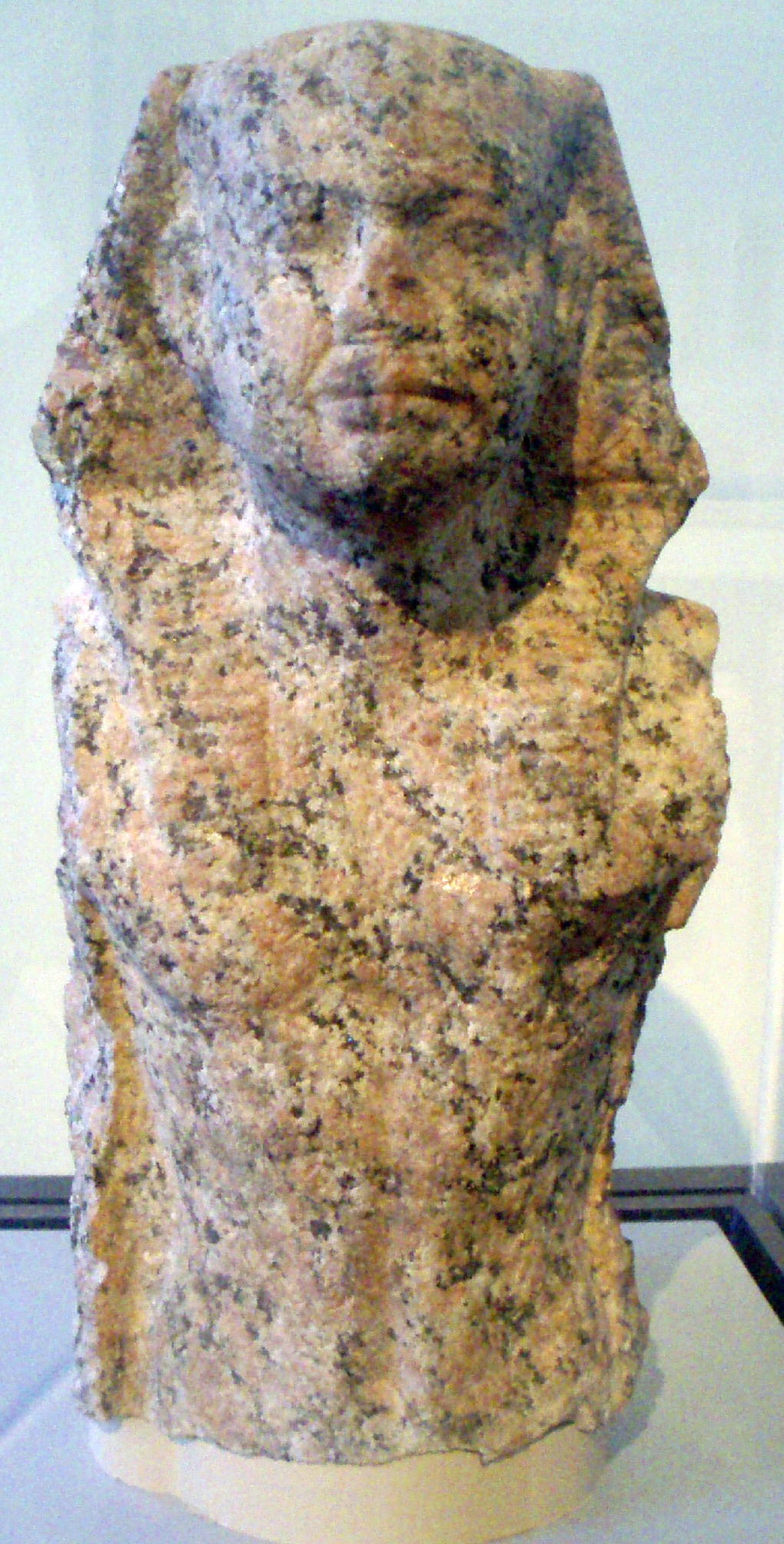 Head and torso in the style of a 5th Dynasty king, thought to possibly be Nyuserre Ini. Circa 2455-2425 B.C.